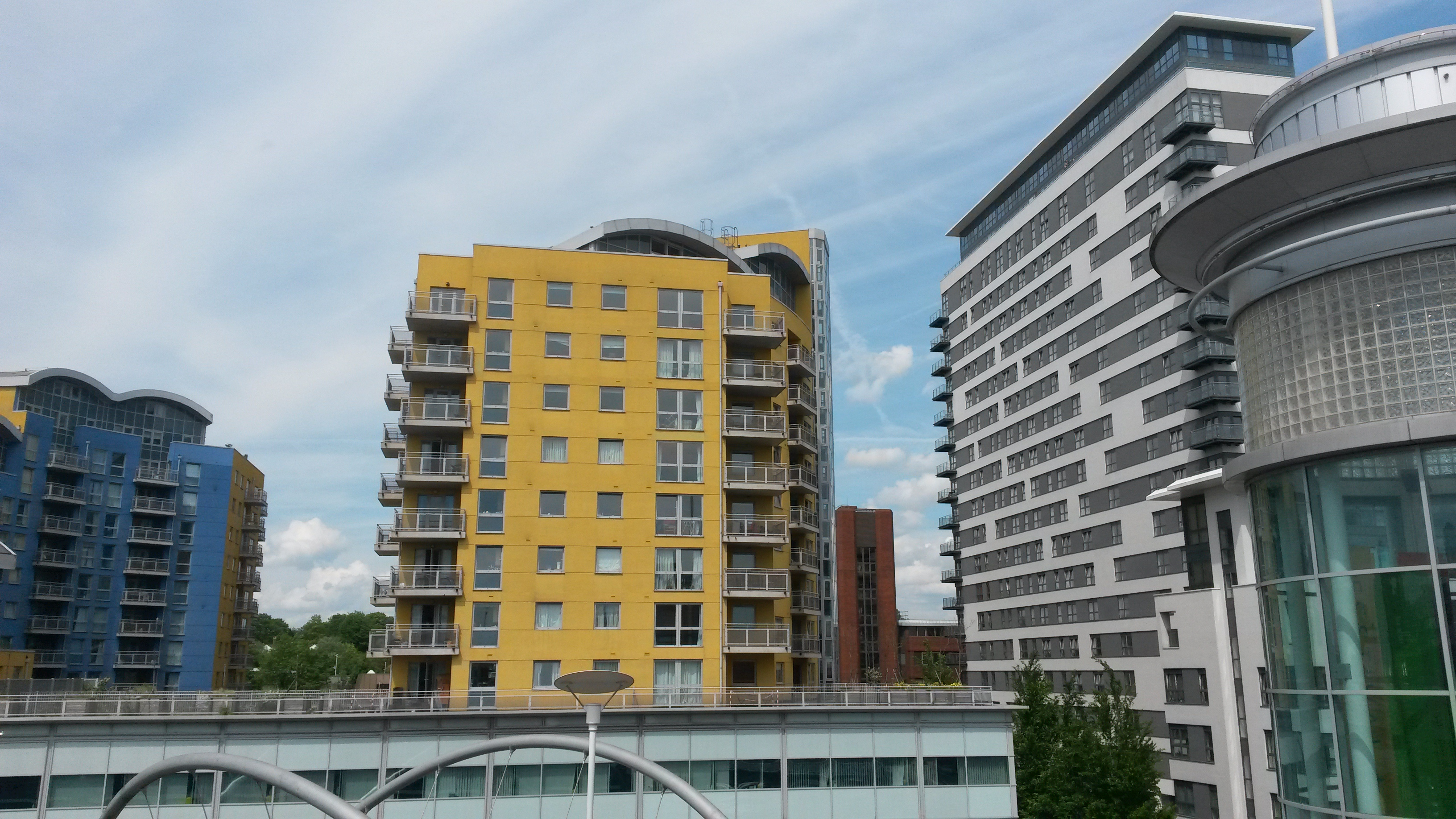 High-rise flats in Churchill Plaza, Basingstoke